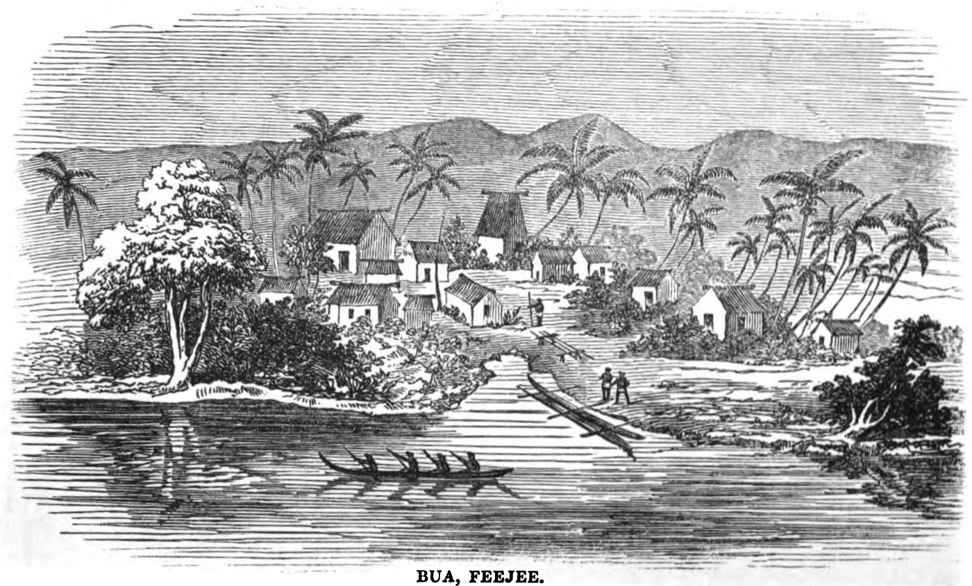 Bua, Feejee (June 1851, VIII, p.60)